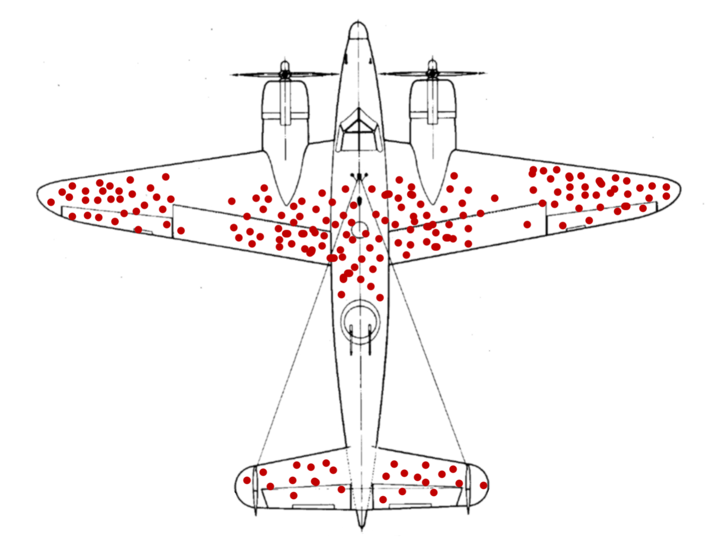 Illustration of hypothetical damage pattern on a WW2 bomber, dot pattern roughly based on that given at which gives credit to Cameron Moll. This file was derived from: PV-1 BuAer 3 side view.jpg